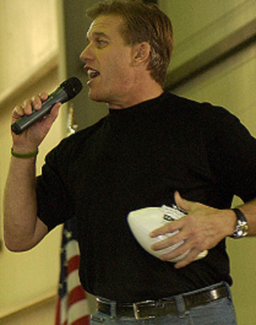 Former American football player John Elway speaking to United States troops while preparing to throw a football.